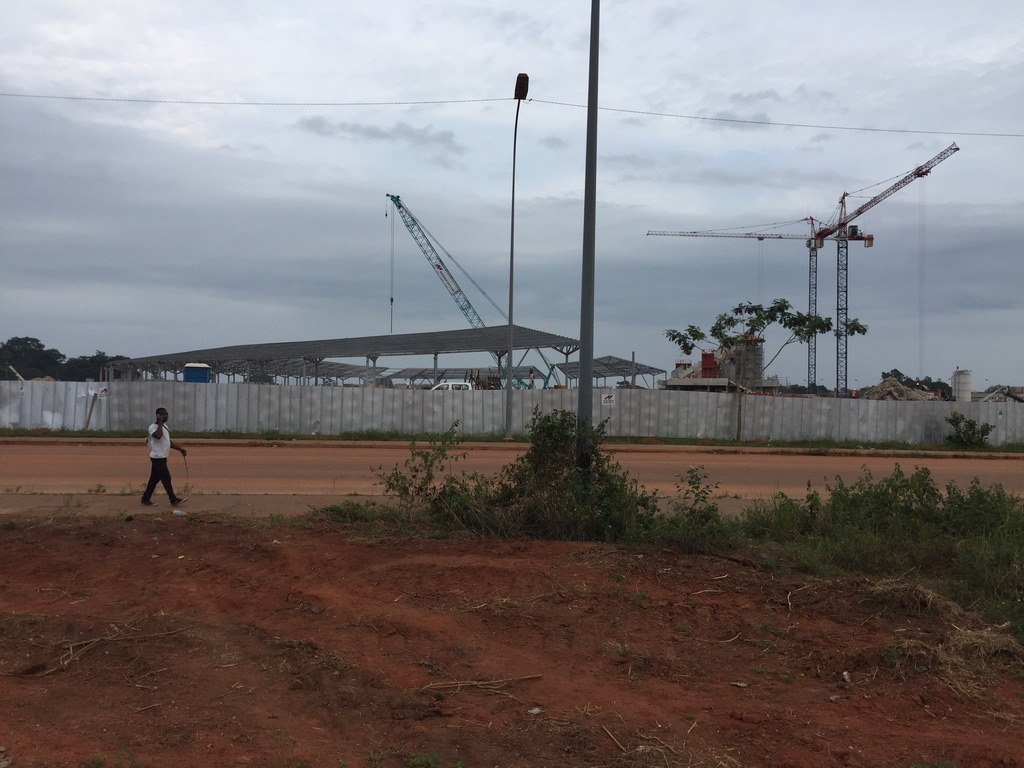 side picture of the stadium during the construction